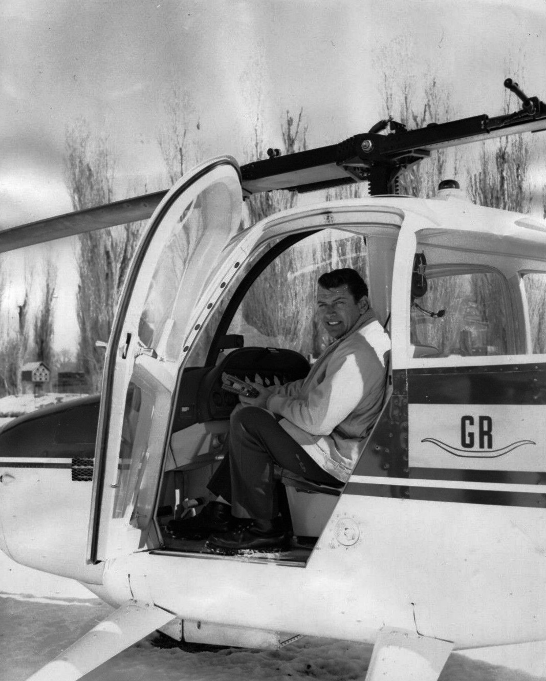 Photo of Richard Egan as Jim Redigo from the short-lived western television series Empire. The item has no copyright markings on it as can be seen in the links above.